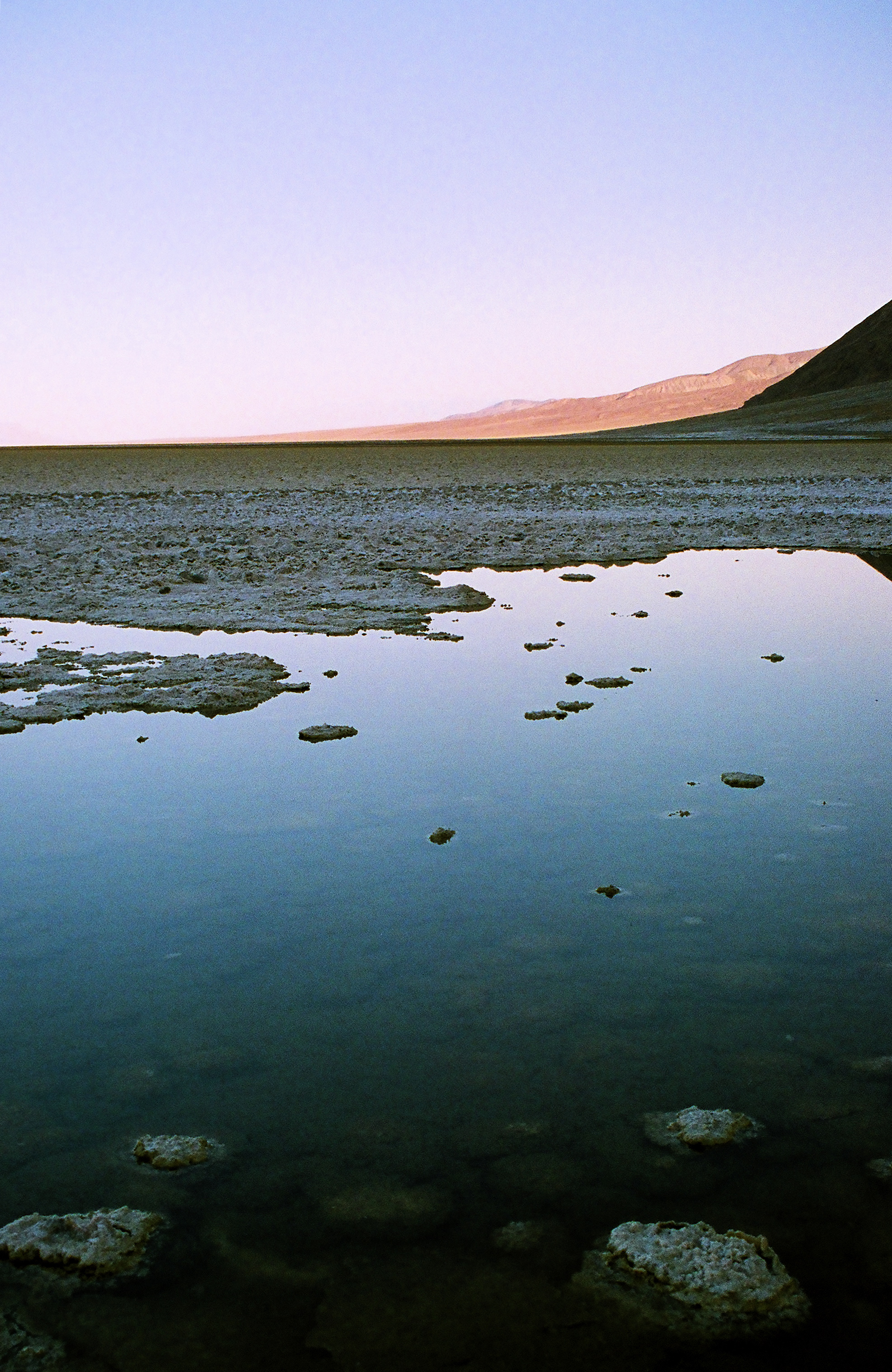 The Badwater Basin of Death Valley, Ca, in the morning